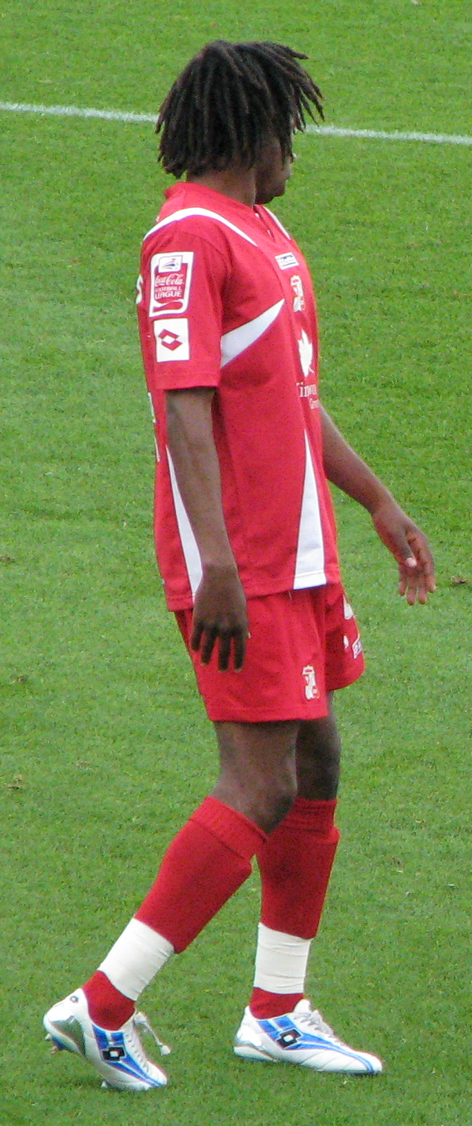 Miguel Comminges. Image cropped from original at flickr.